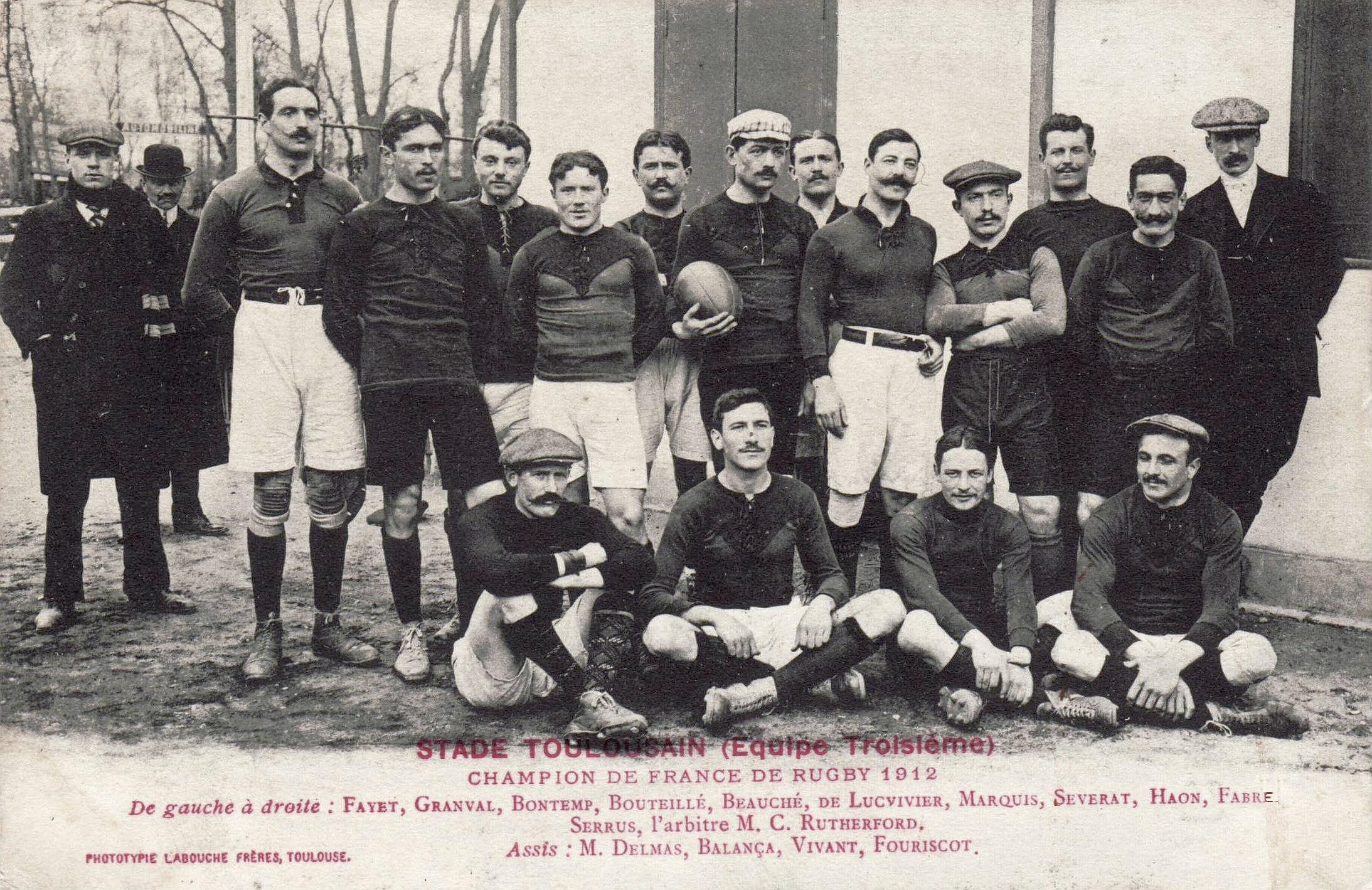 Stade Toulousian rugby union team, French champion in 1912.